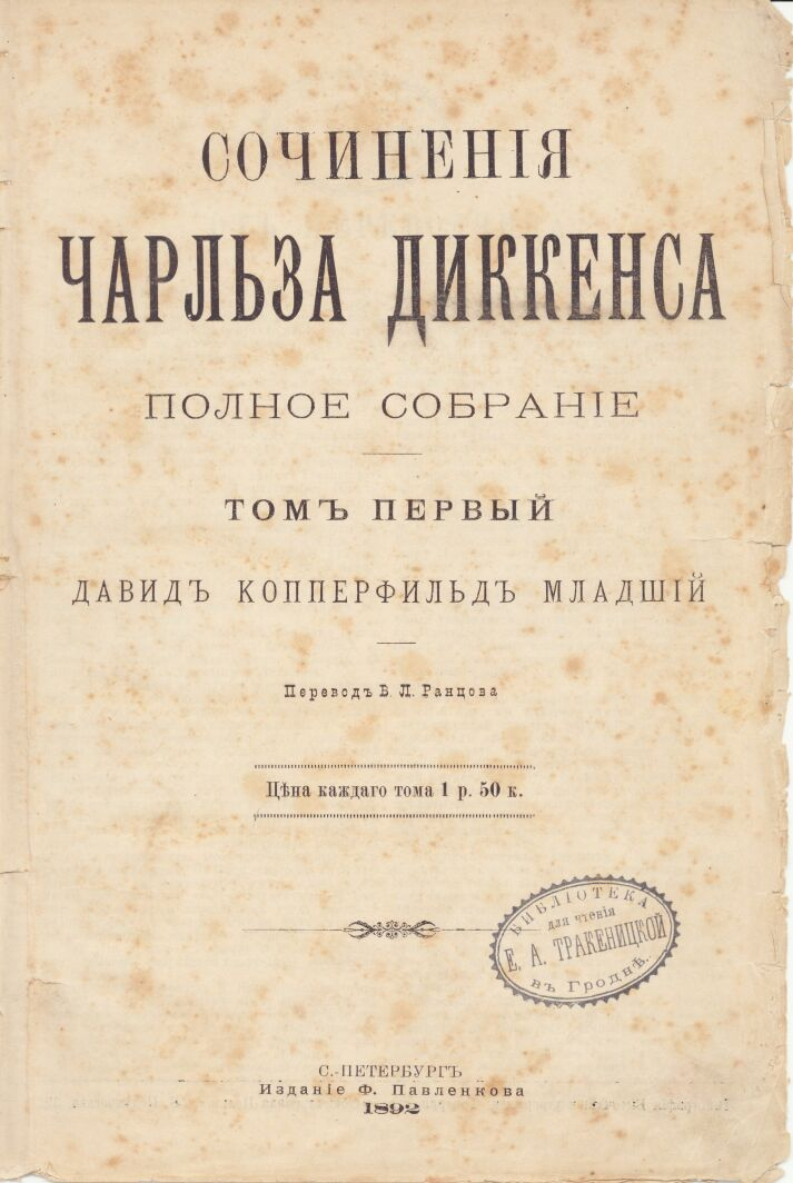 Cover of Russian edition of David Copperfield by Charles Dickens (1892) Scan by Alma Pater 14:28, 26 August 2006 (UTC)